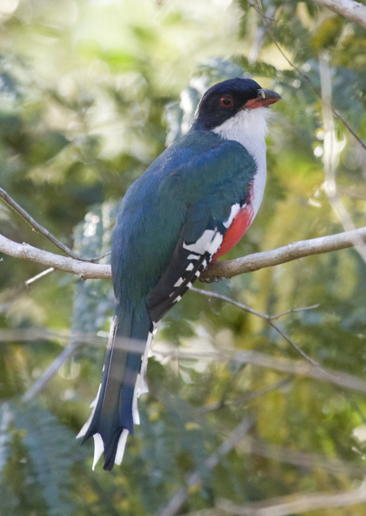 A Cuban Trogon in Matanzas Province, Cuba.